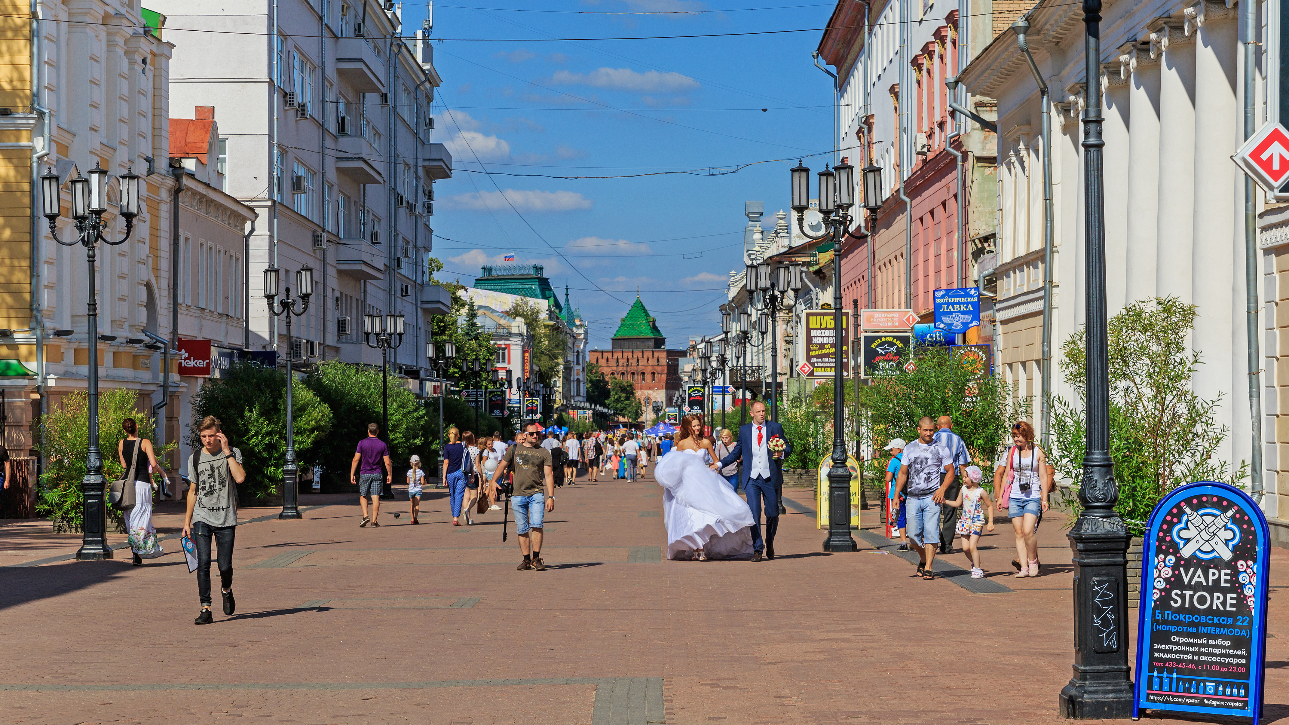 View of Bolshaya Pokrovskaya Street (pedestrian zone) from Oktyabrskaya Street to the Kremlin. Nizhny Novgorod, Russia.